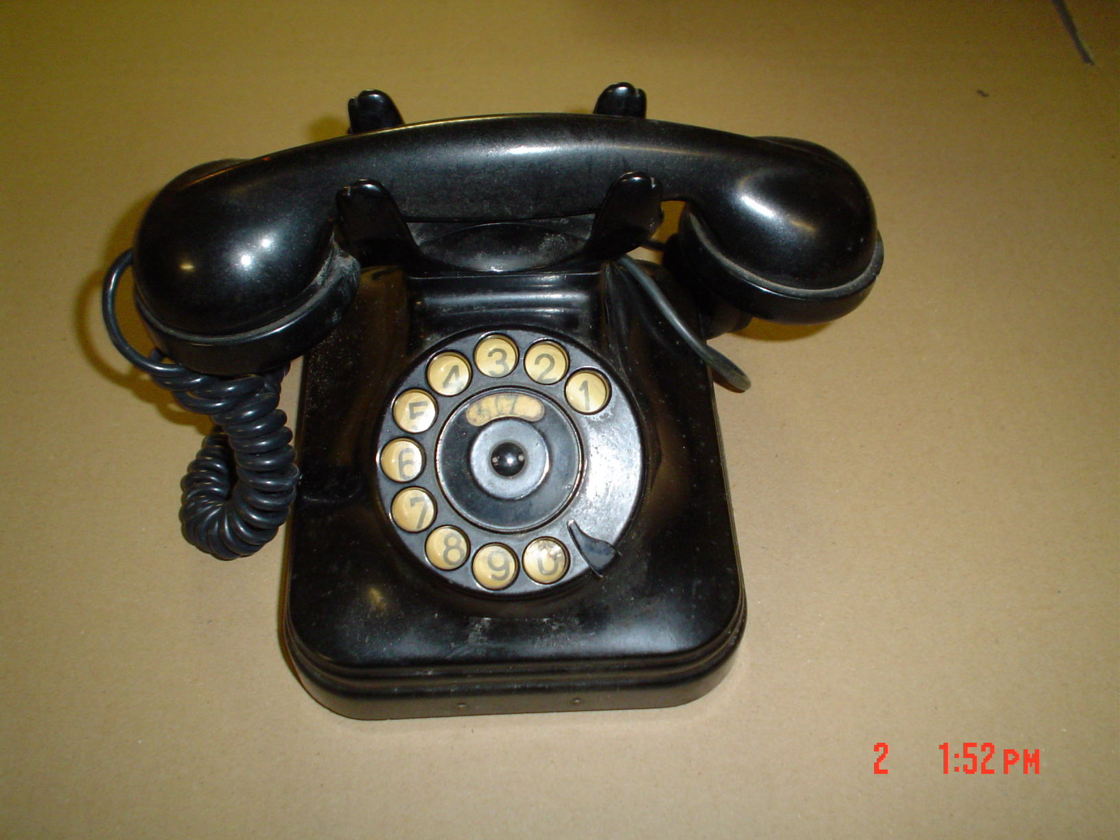 Telephone CB 35